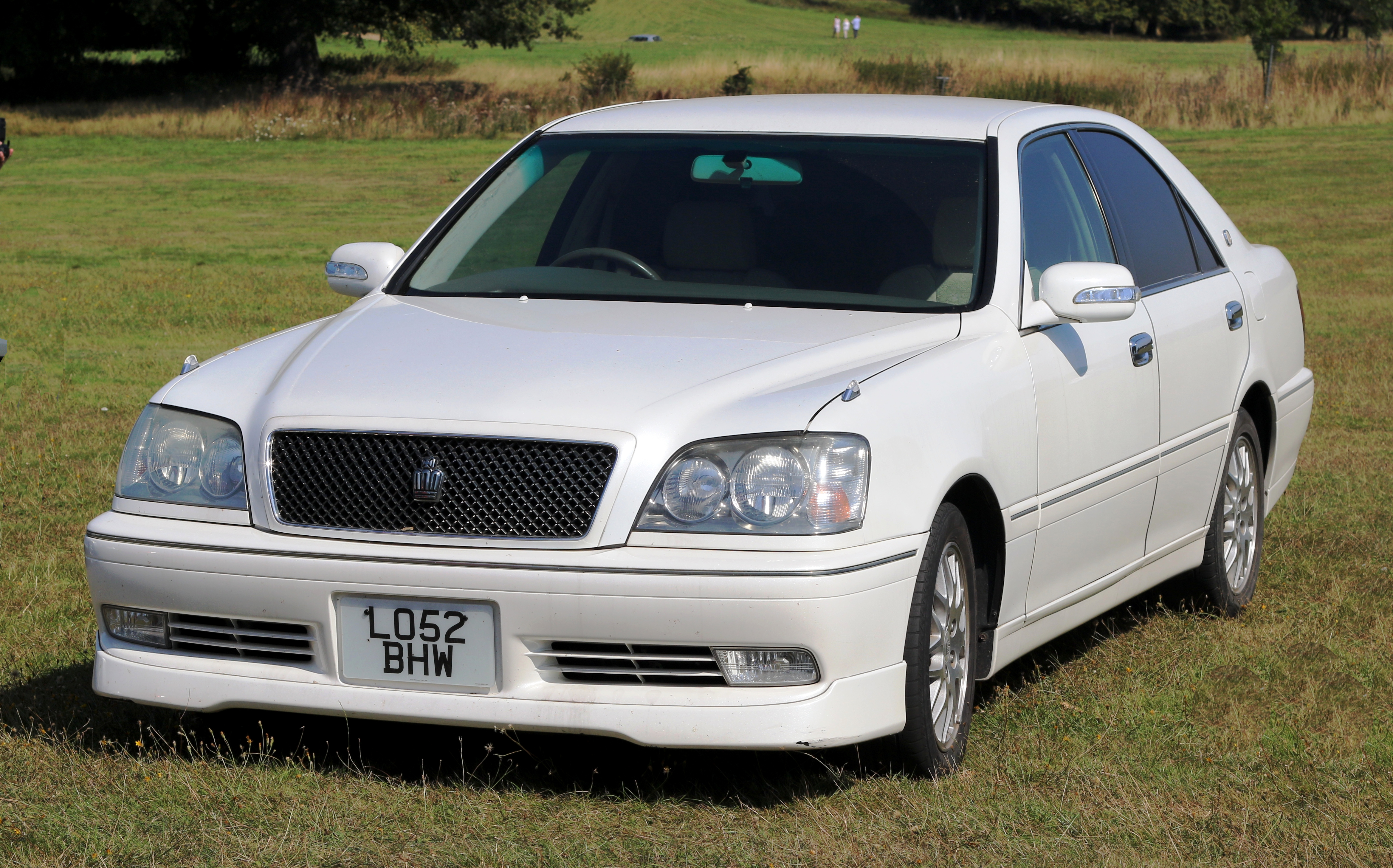 Toyota Crown Athlete aka Toyota Crown (S170) declared manufactured 2002 registered in UK May 2019 2500cc per dvla